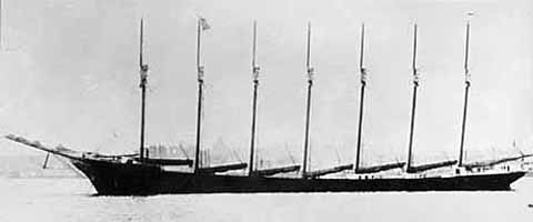 Sevenmasted schooner 'Thomas W. Lawson'. This was the biggest "pure" sailing ship (i.e., without auxiliary engine) ever built. She was lost on 1907-12-14 in British waters at Hellweather's Reef, near the Isles of Scilly, killing sixteen of the eighteen persons on board (fifteen crew and the pilot) and causing the first known major oil spill. This photograph was taken in 1906 or 1907. See Thomas W. Lawson (ship) and/or Thomas W. Lawson: The Lawson's hull was painted in bright colours when launched, but later the hull was painted black. Her topmasts were taken off by 1903. She was not completely re-rigged before 1906. As the Lawson did not leave America's East coast before her last voyage, this photograph must have been made there (probably in North America). Furthermore, for her extraordinary draft when loaded, one might be able to further reduce the possibilities for the location of this scene. At an other (and less cropped) print from same negative ist shown which has, according to the webpage, a hand-written note Thomas M. Lawson / Boston Harbor 1911 on its backside. As the city's skyline is more distinct on that other print, it might be checked whether "Boston" is correct. The date 1911 and the name Thomas M. Lawson definitely are not.